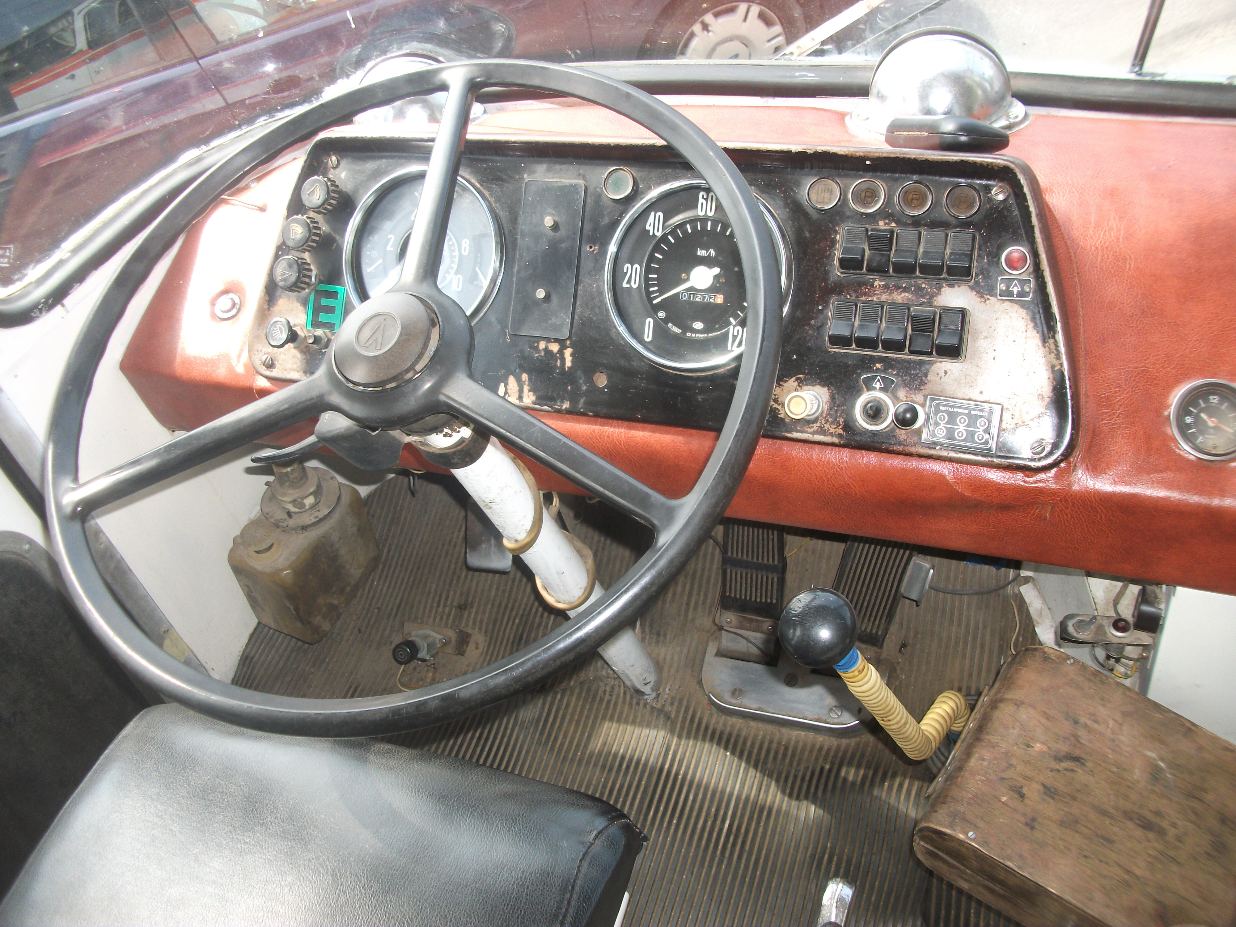 LAZ, cabin of driver